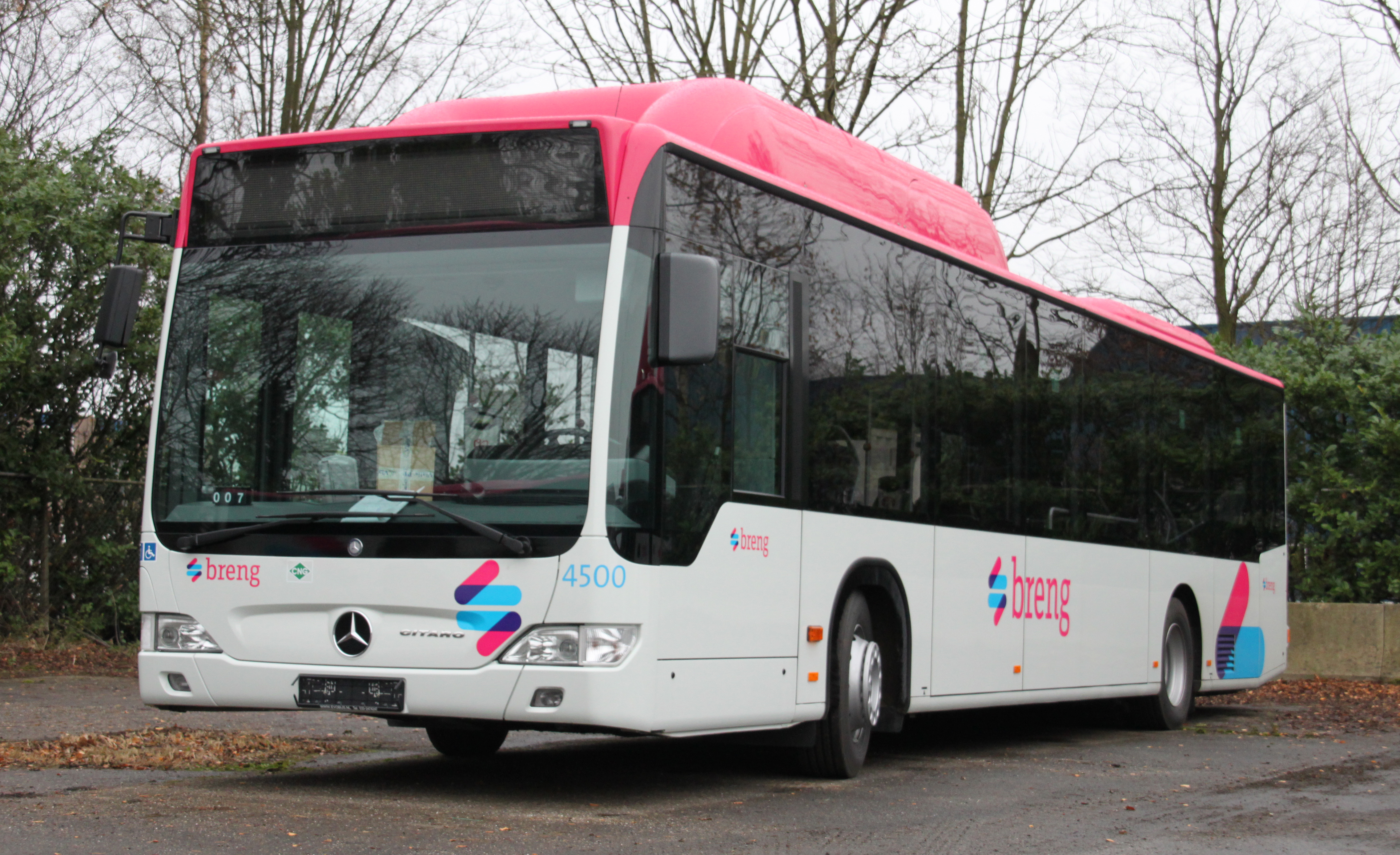 Mercedes-Benz Citaro CNG city bus in Nijmegen, the Netherlands.